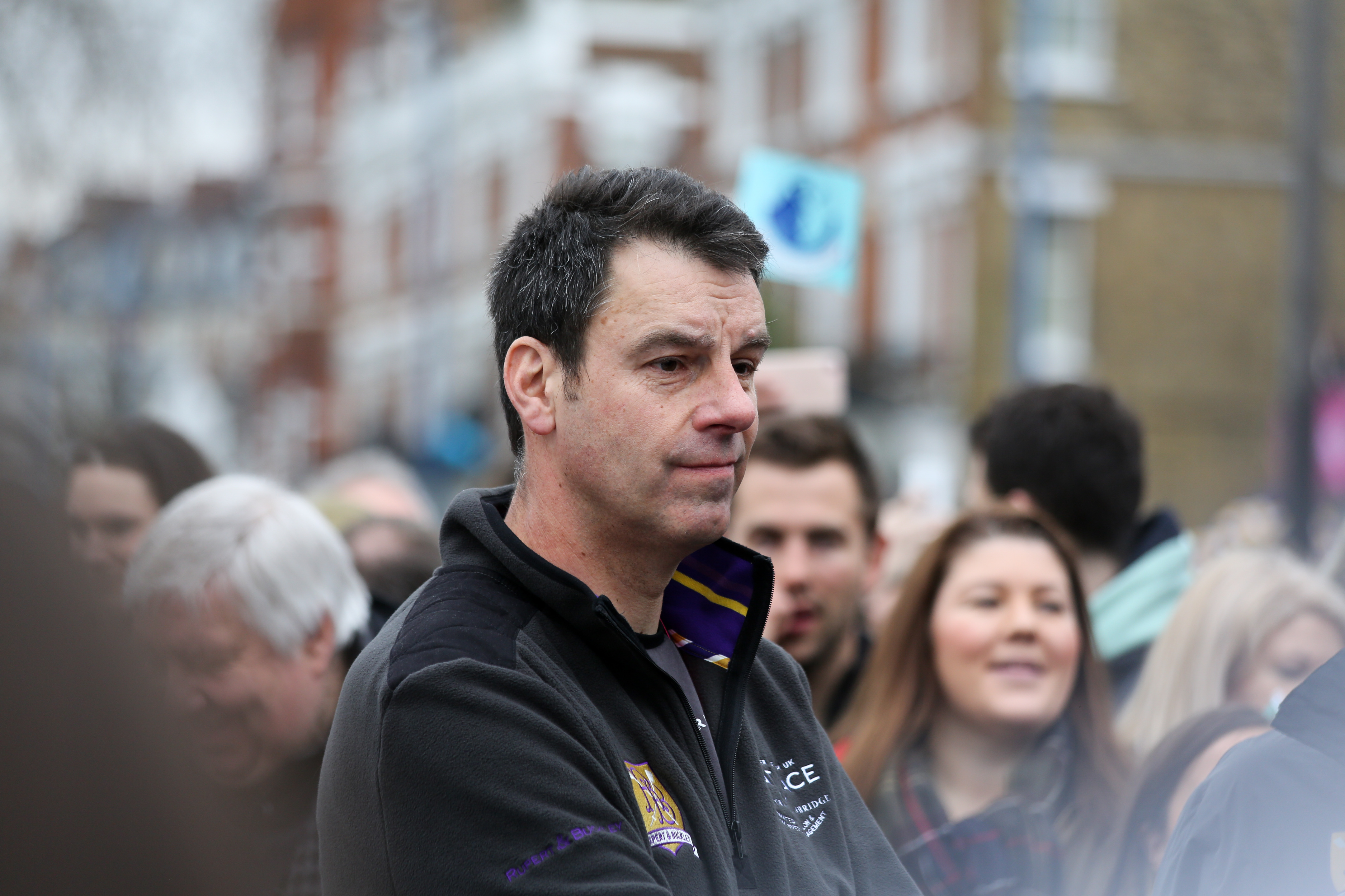 The Cancer Research UK Boat Race 2018 - Men's Blues Race - Umpire - John Garrett